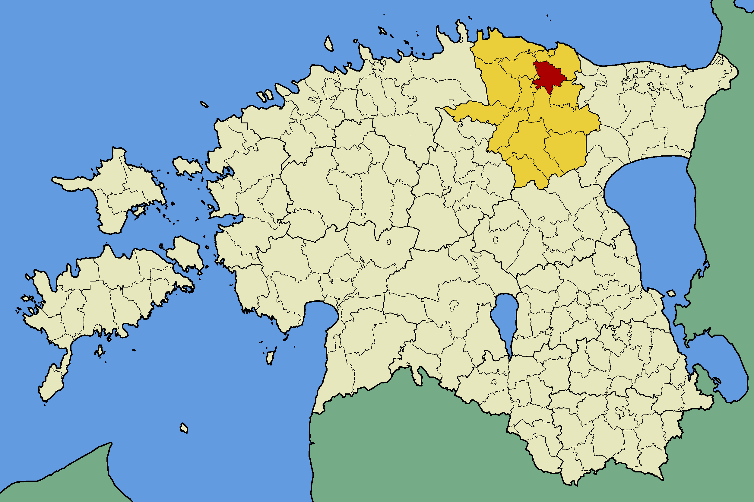 Map of Estonia with borders of municipalities (parishes). Lääne-Viru county and Sõmeru municipality emphasized.